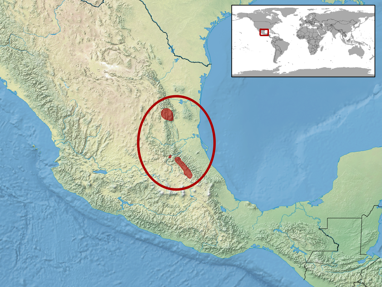 geographic distribution of Abronia taeniata (Native: Mexico)